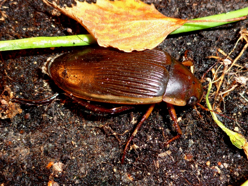 Dytiscus dimidiatus. Found in Riga town, Latvia